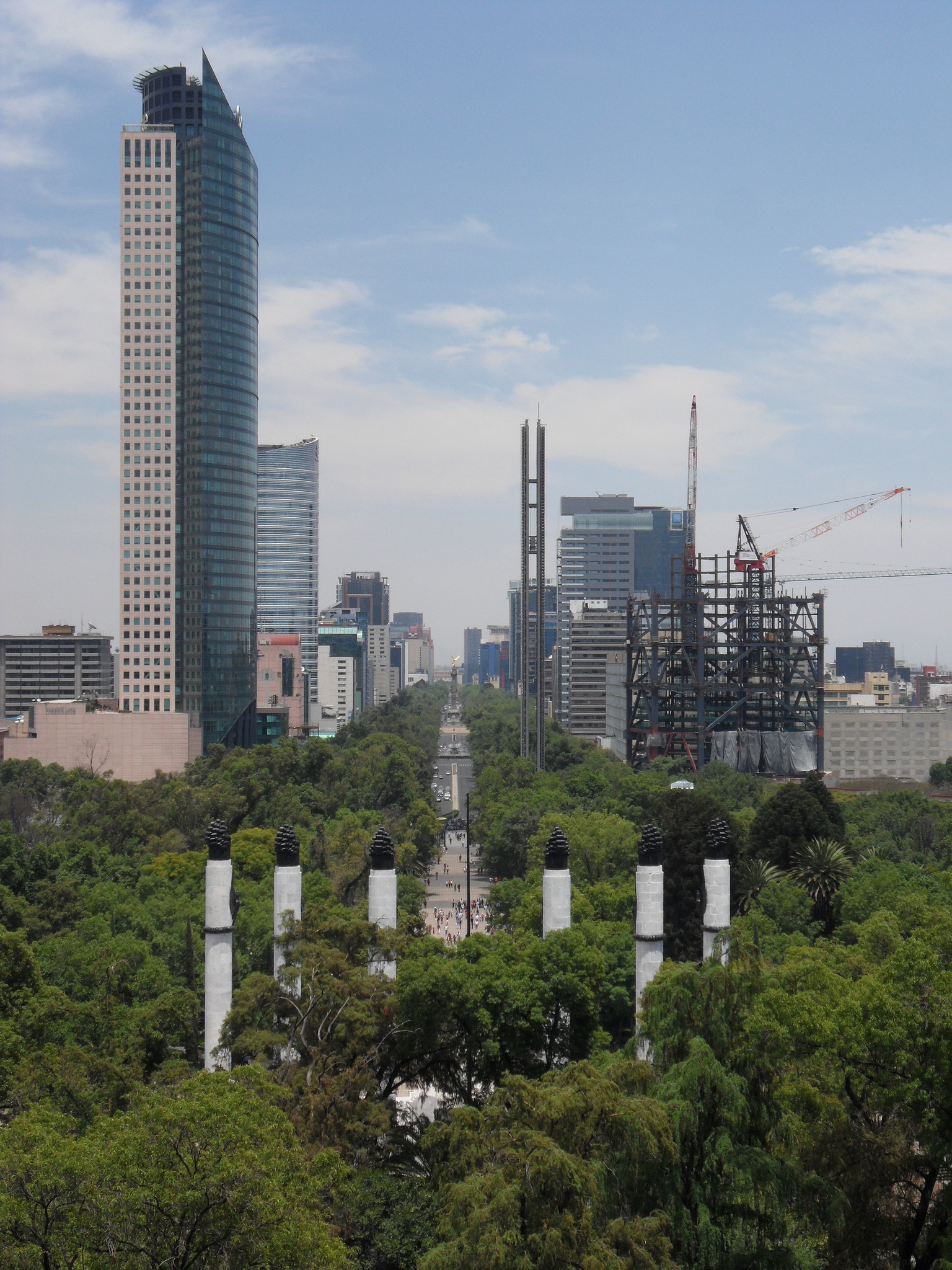 A view of Paseo de la Reforma.